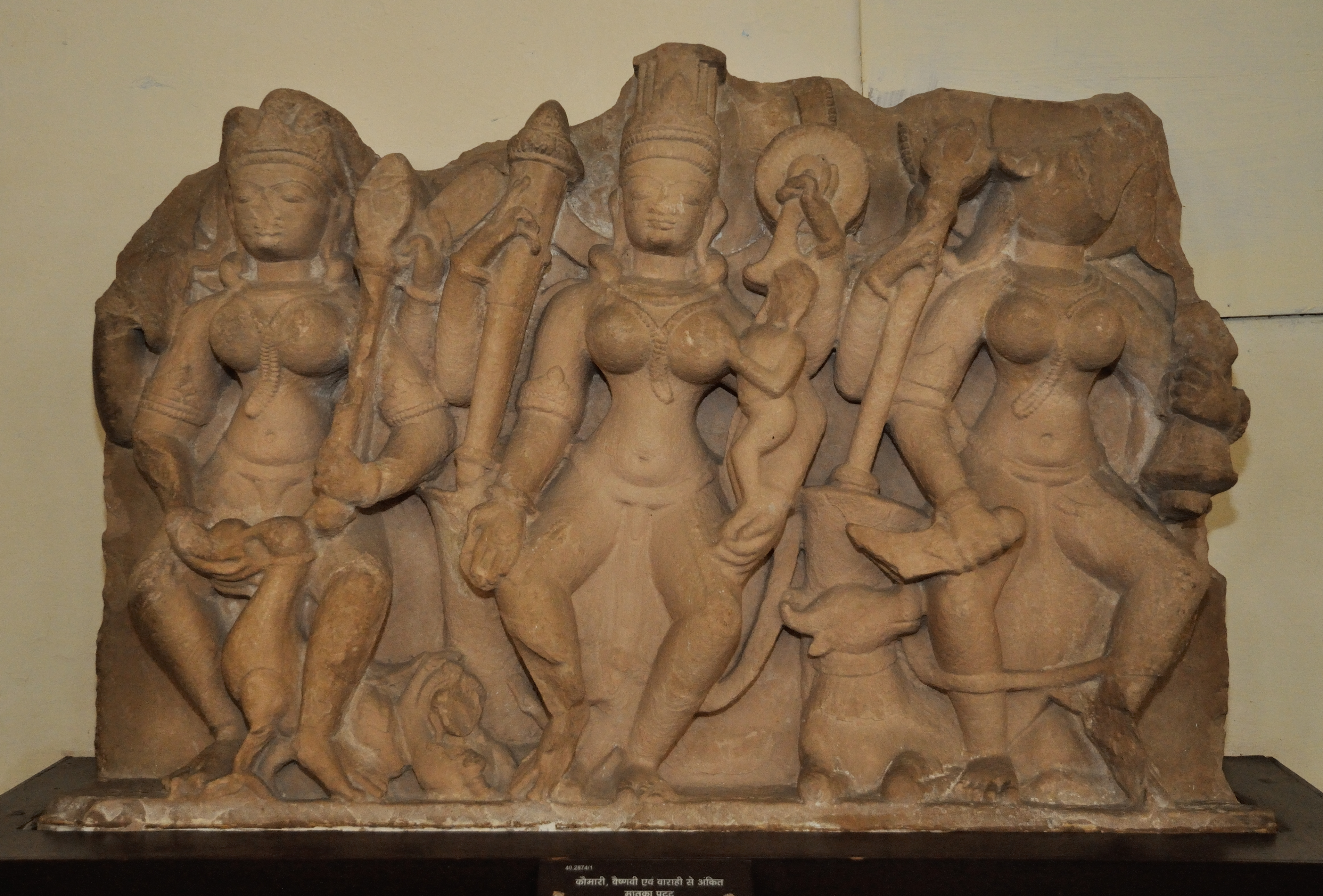 This artefact resides at the Government Museum, (hi: Rashtriya Sangrahalaya) formerly The Curzon Museum of Archaeology, Museum Road or Murari Lal Rajpal road, Dampier Nagar, Mathura, Uttar Pradesh, India. This museum is administrating by the State Government of Uttar Pradesh of India.